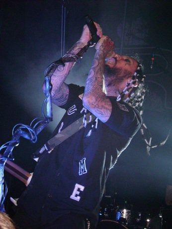 Brian Head Welch performing live in Phoenix, AZ on 10/30/2010